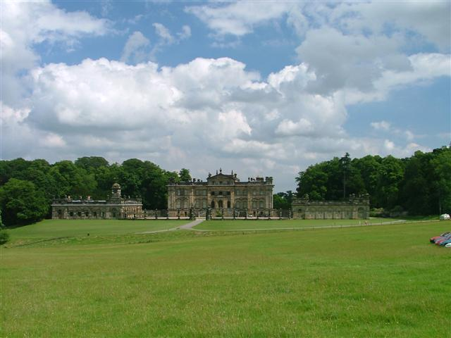 Duncombe Hall